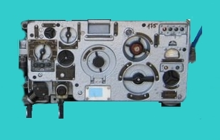 Soviet armed forces tank radio station R-123 (20-51.5 MHz), model version as to 1962.